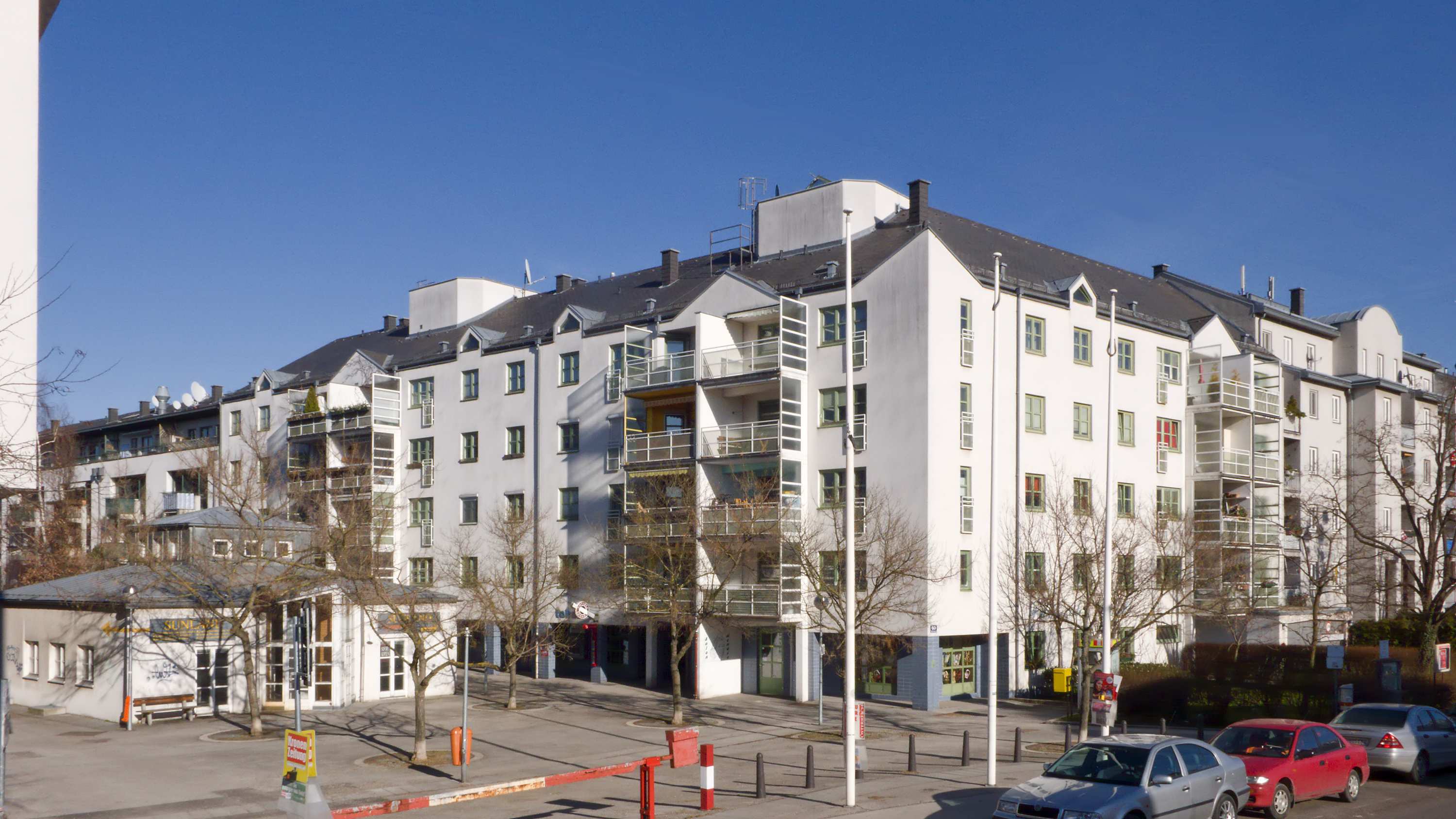 Residential buildings Franz-Weber-Hof in Vienna Döbling